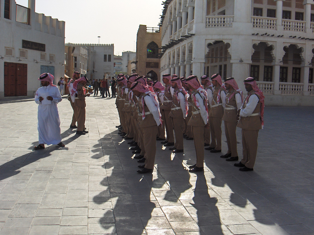 Qatar police - Doha City